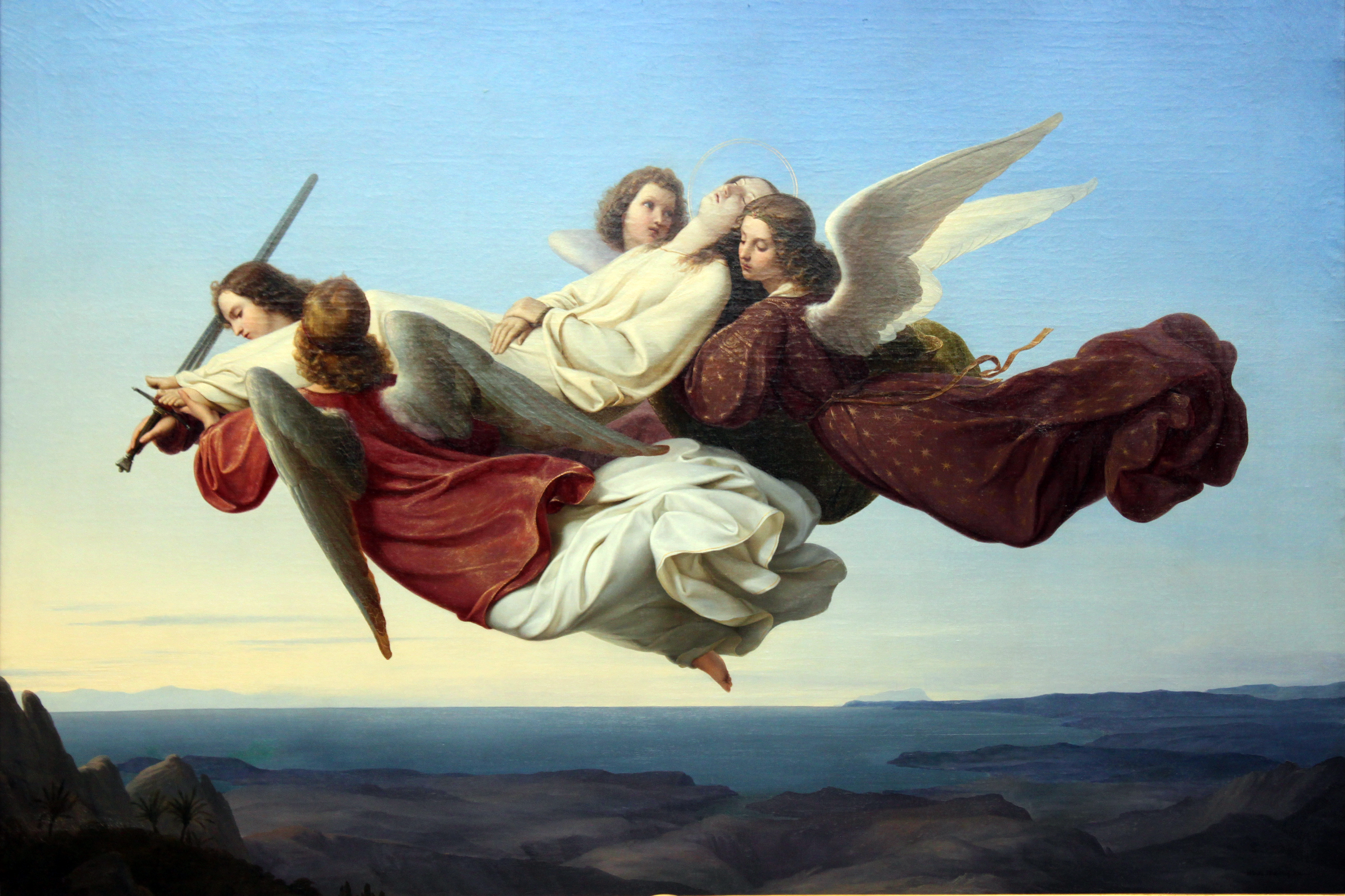 The body of Saint Catherine of Alexandria, taken up to paradise by angels